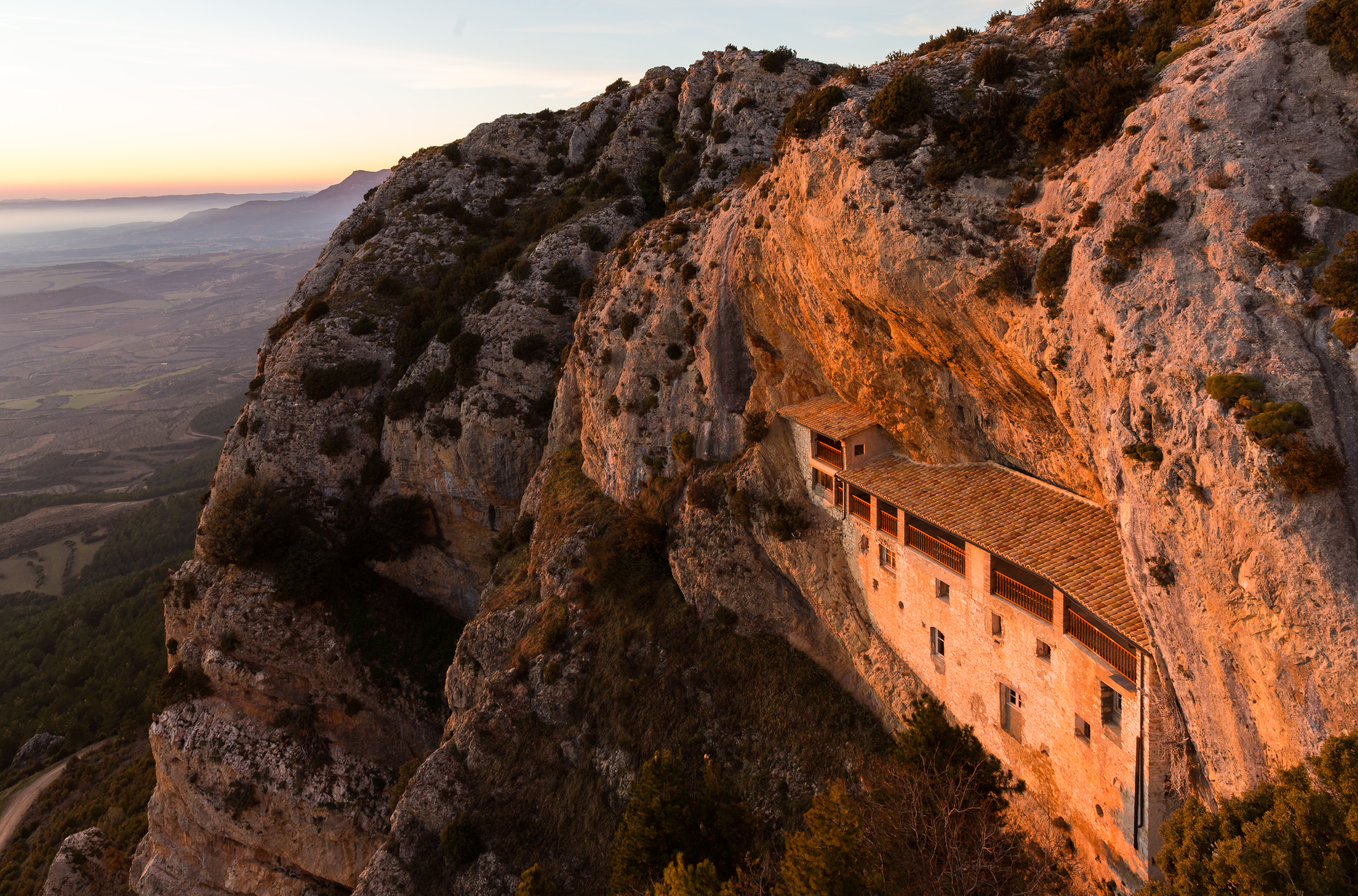 Sunset view of the Ermita de la Virgen de la Peña (Hermitage of the Virgen of the Rock) with the village of Aniés in the back, province of Huesca, Spain.